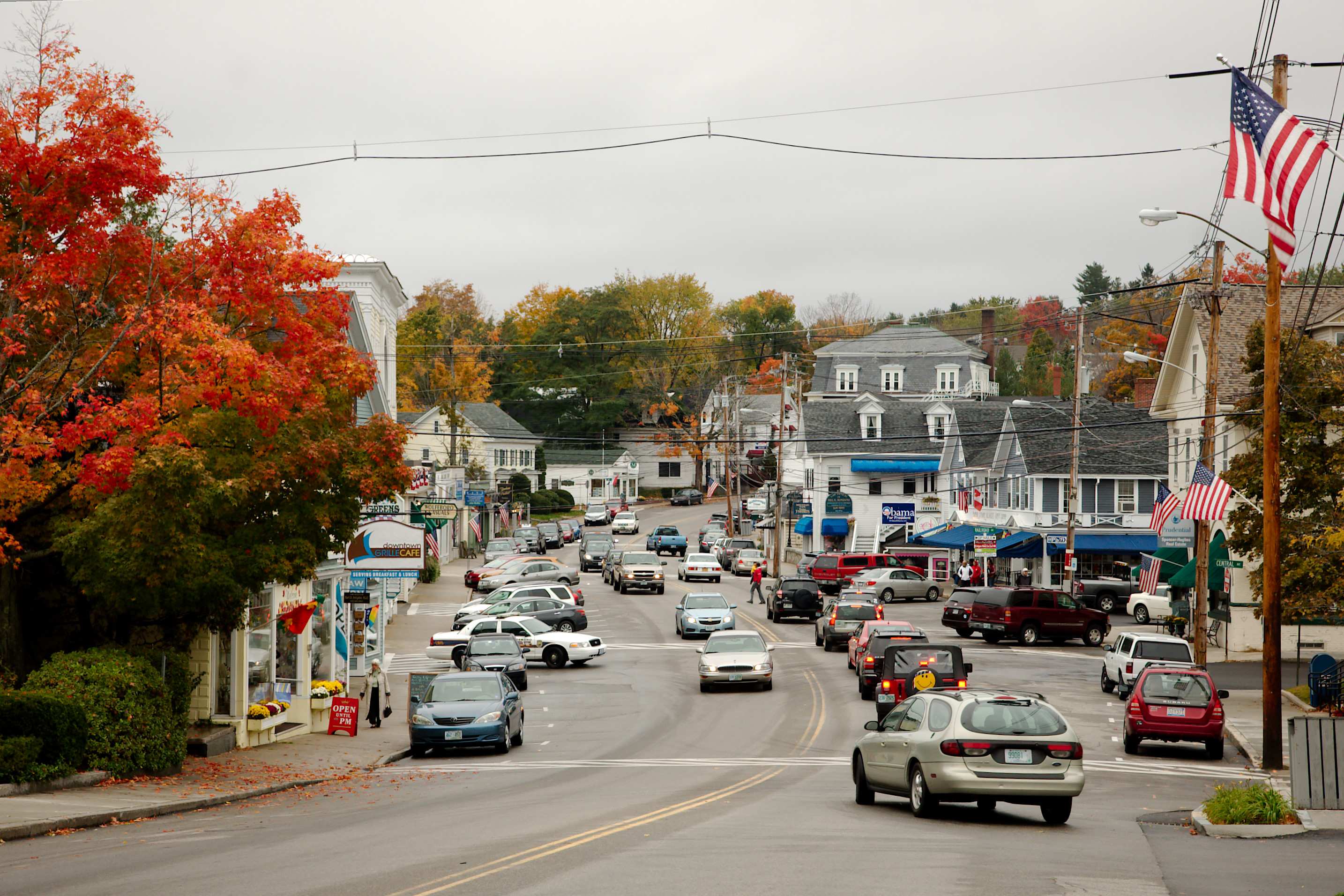 A view down South Main Street, Wolfeboro, New Hampshire, in the fall.